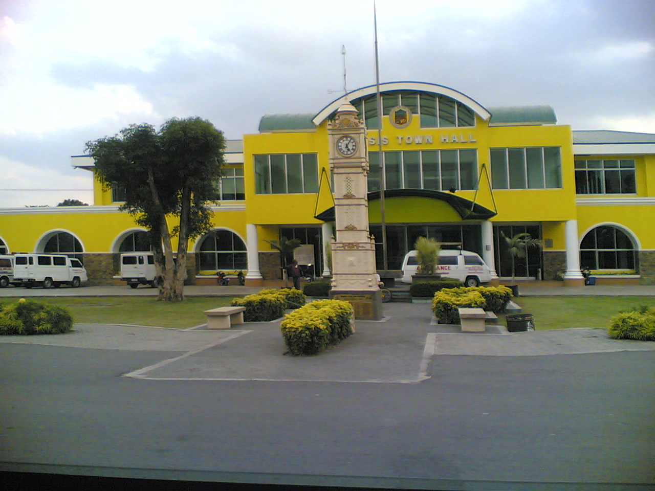 town hall of the municipality of Villasis, Pangasinan Tagalog: Opisina ng bayan ng Villasis, Pangasinan (aking gawa)